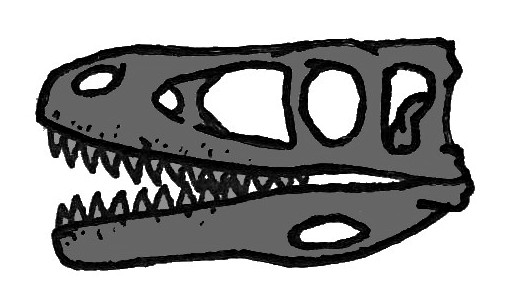 Illustration of skull of dromaeosaurid dinosaur. Almost all dromaeosaurids had teeth with sharp, serrated edges. The cranium contained a big brain, which paraded a good sense of sight, and with dinosaurs standards high intelligens.